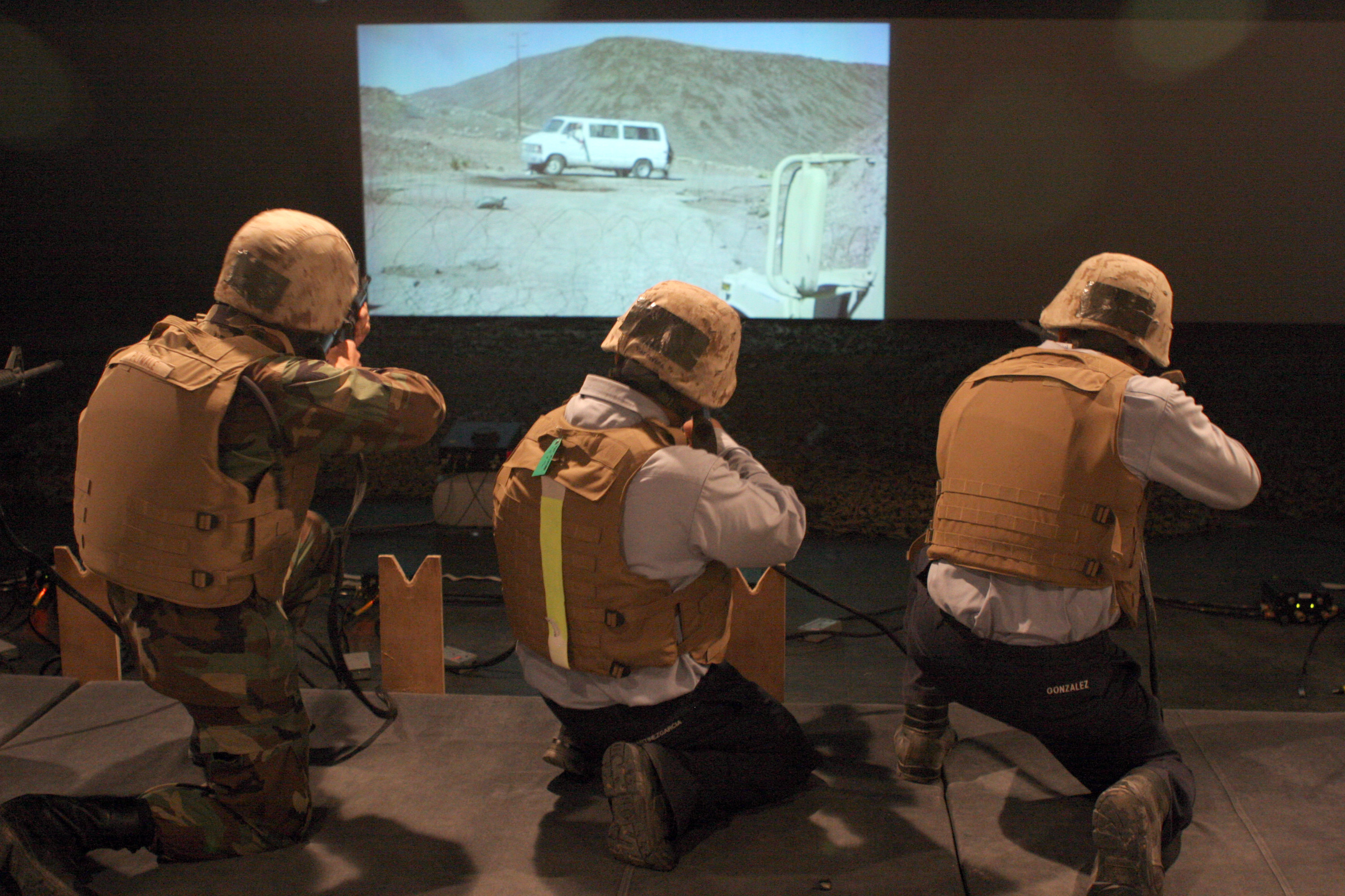 CAMP BUEHRING, Kuwait (April 26, 2007) - Sailors from Bataan Expeditionary Strike Group fire weapons in the indoor simulated marksmanship trainer. The experience allows the Sailors to respond to combat situations in a simulated environment. U.S. Marine Corps photo by Sgt. Freddy G. Cantu (RELEASED)